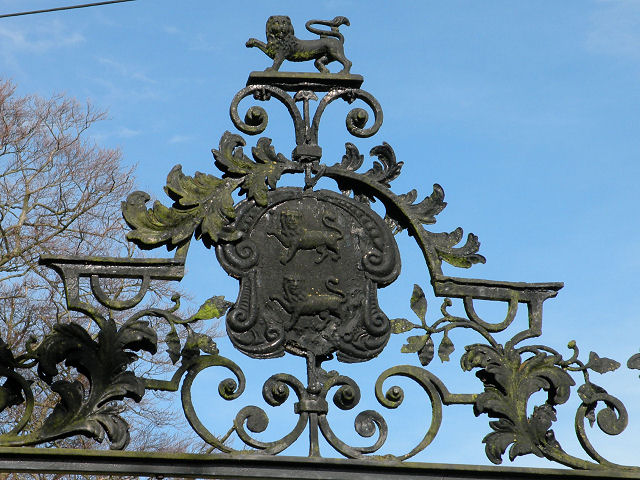 Bottisham Park Gateway detail I haven't been able to establish whose arms these are.